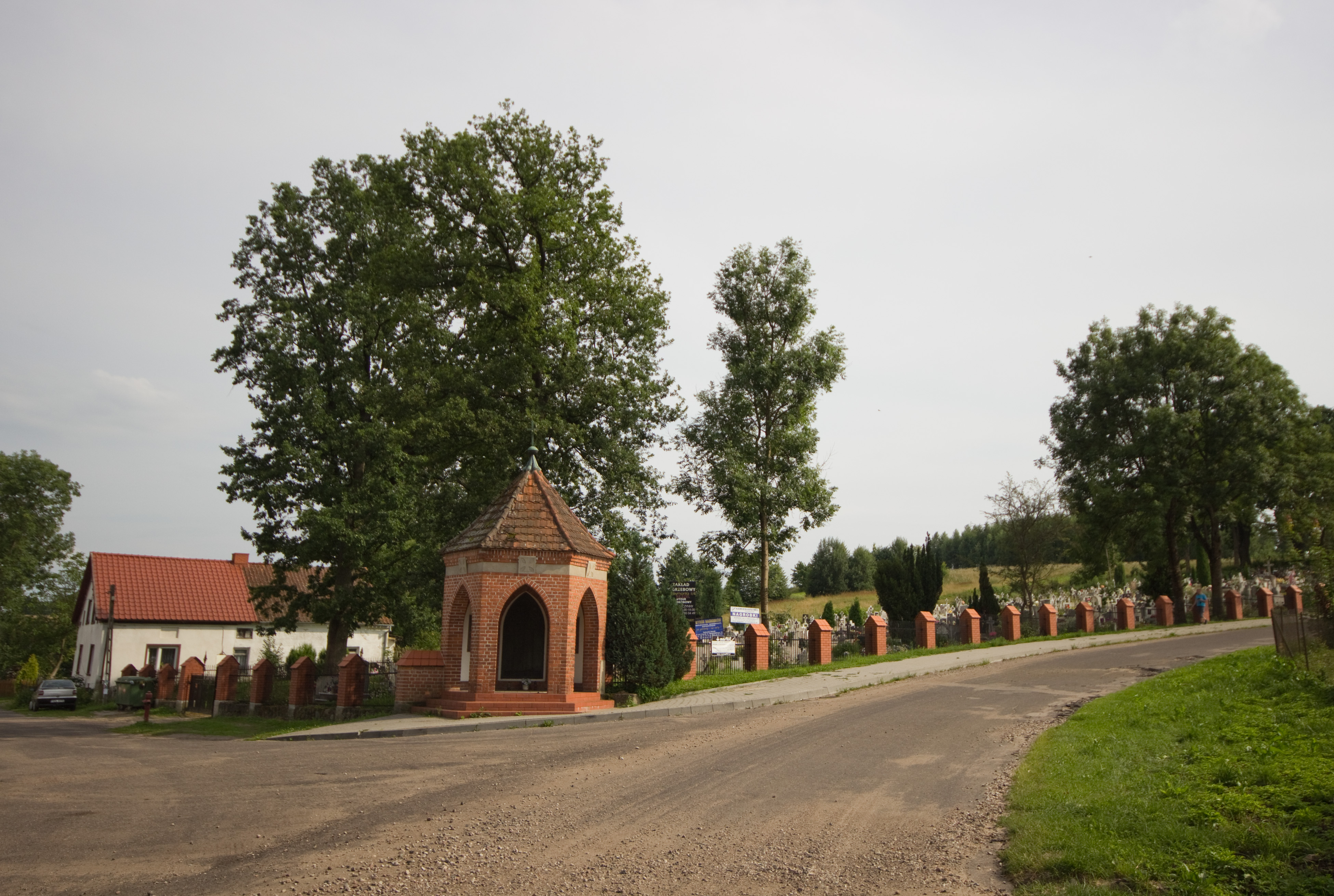 Street, Kolno, gmina Kolno, powiat olsztyński, Warmian-Masurian Voivodeship